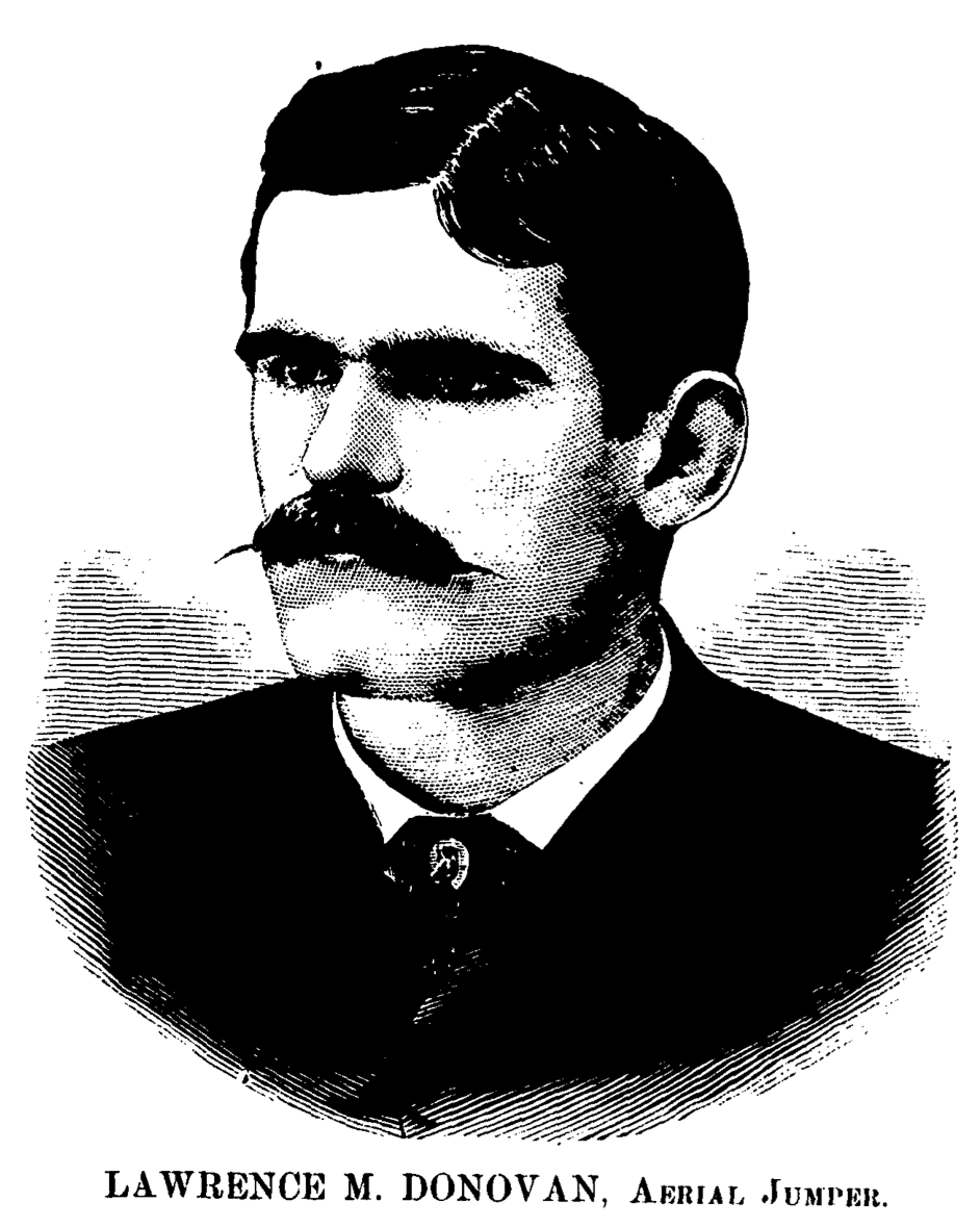 Portrait of Larry Donovan in New York Clipper, 1886-12-18.